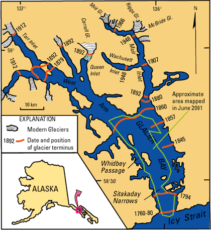 Glacier Bay: Map of Alaska and Glacier Bay. Red lines show glacial terminus positions and dates during retreat of the Little Ice Age glacier. Green polygon outlines approximate area mapped by multibeam system in May-June 2001.